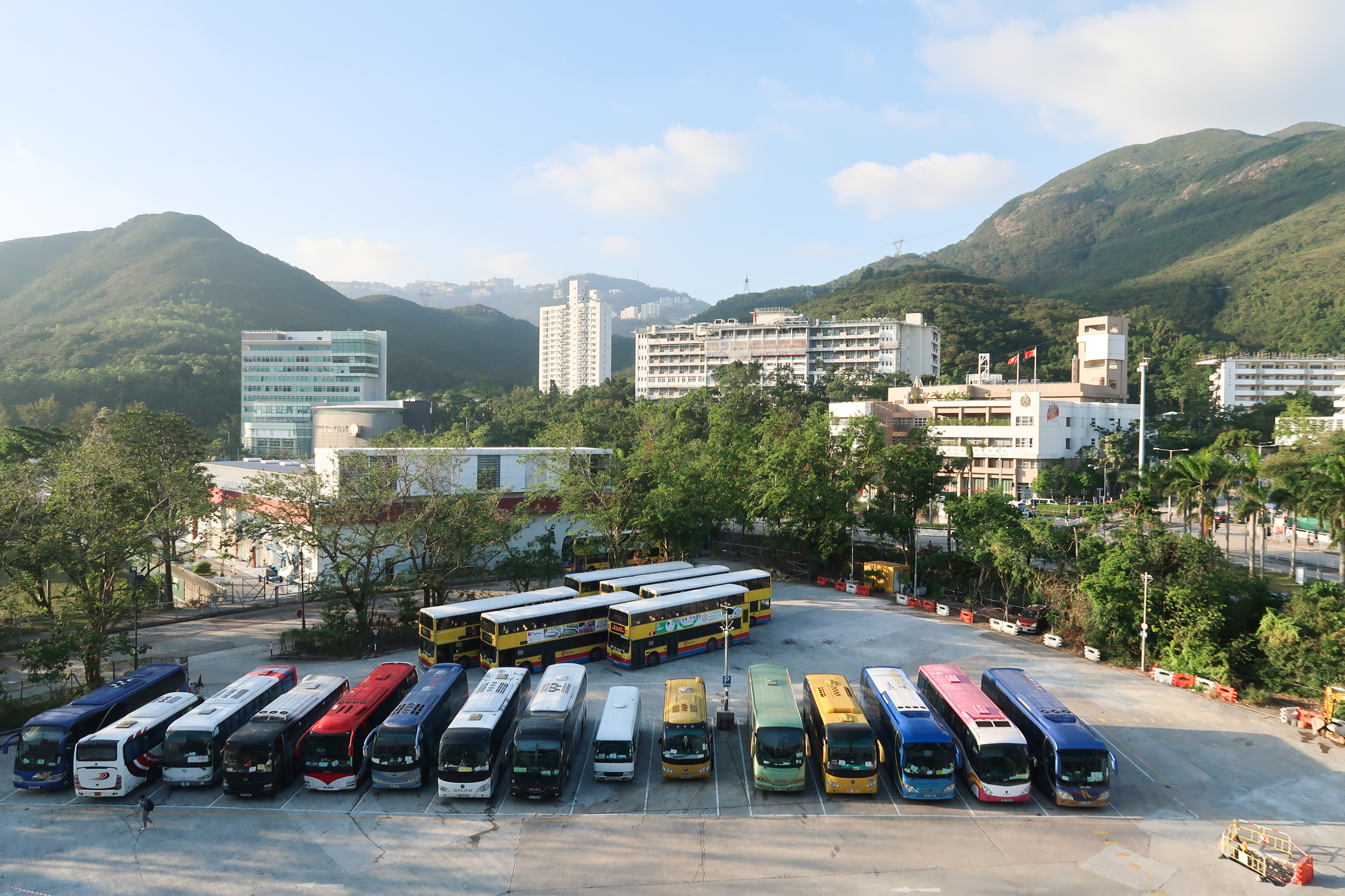 Citybus Ocean Park Depot